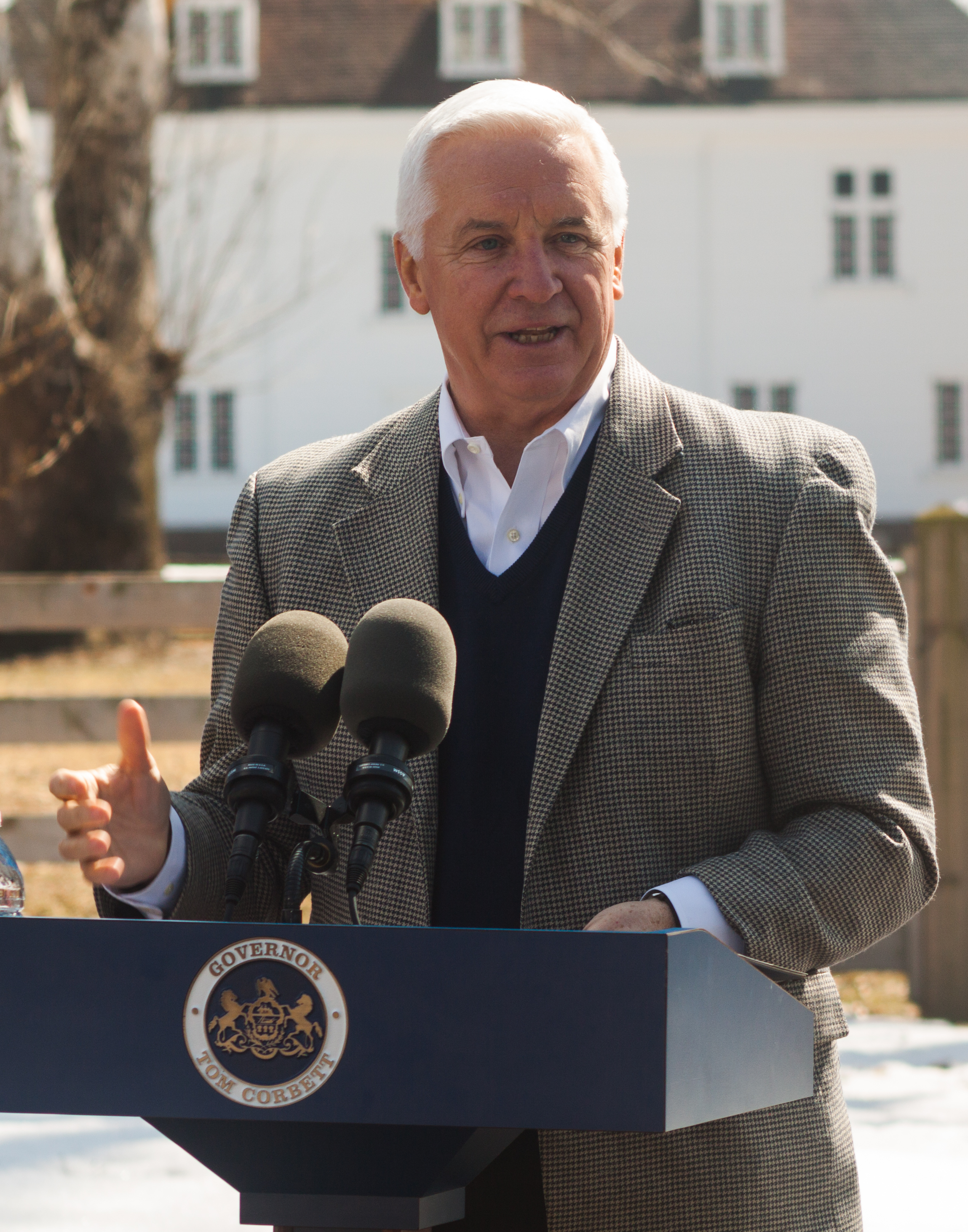 Governor Tom Corbett, speaks at Pennsbury Manor regarding its history and the life of William Penn, founder of Pennsylvania.